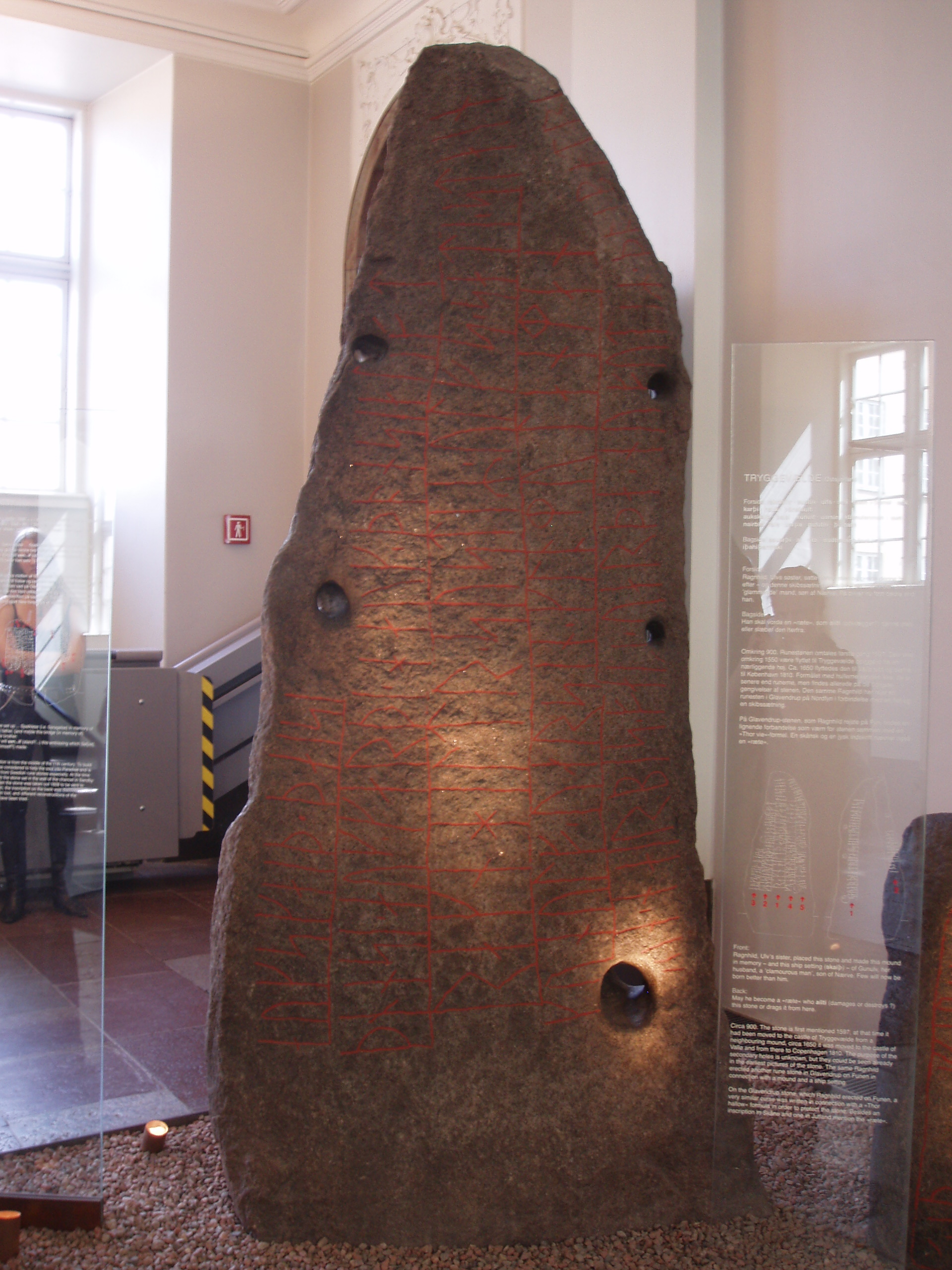 One of the sides of the Tryggevælde runestone, now located in the National Museum of Copenhagen.